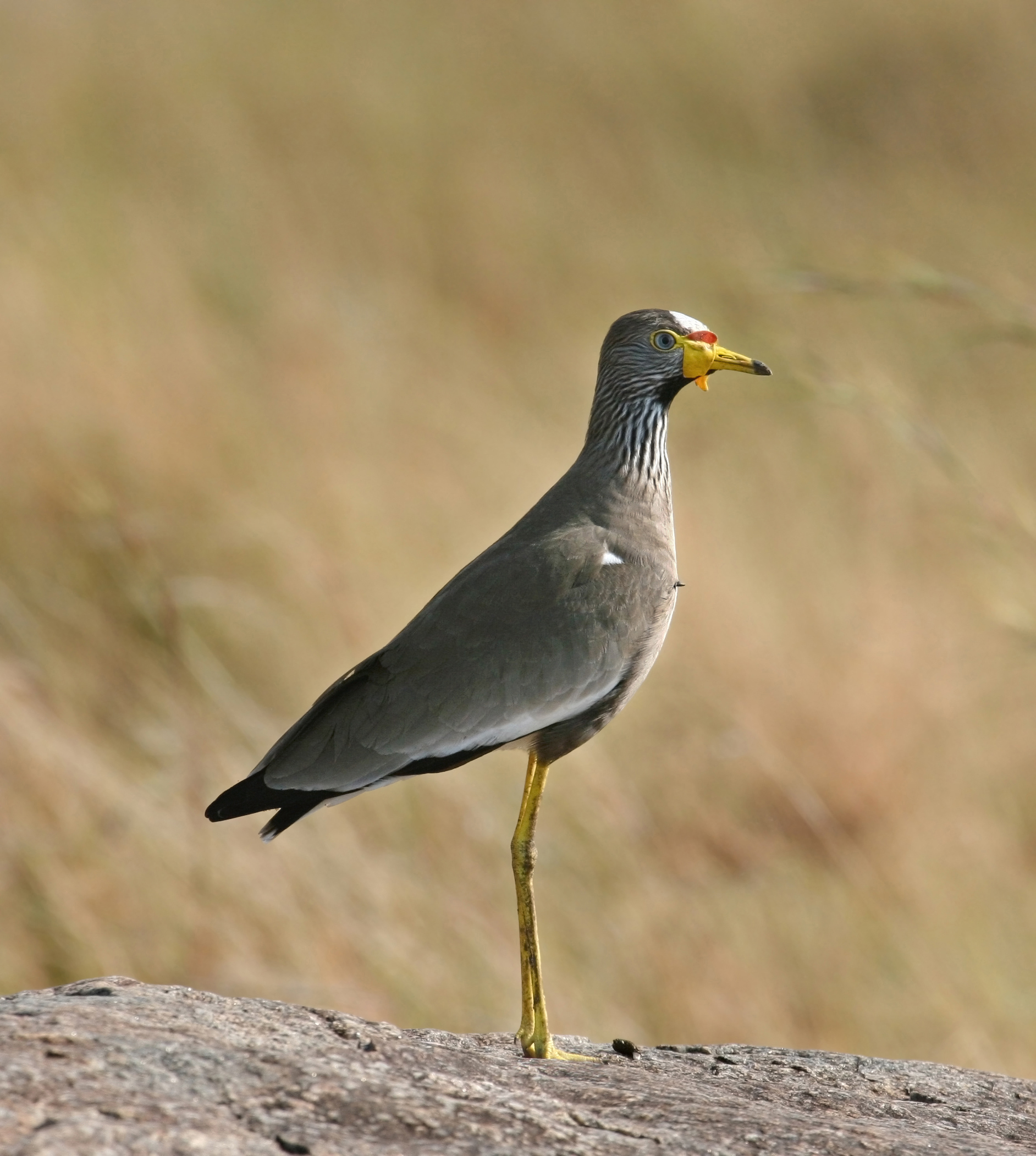 Senegal Wattled Plover. Masai Mara National Reserve, Kenya. Edited version.